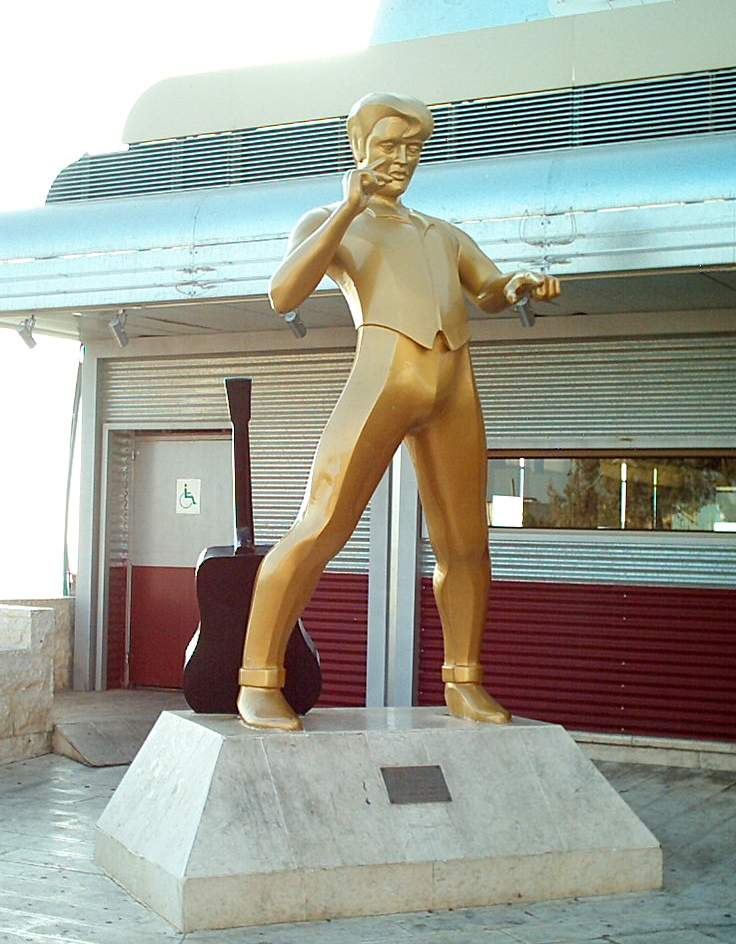 Statue of Elvis Presley at "The Elvis Inn" at Neve Ilan, Israel